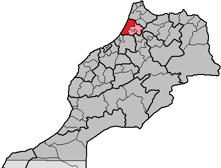 Location of the province Kénitra within the region Gharb-Chrarda-Béni Hssen, Morocco. In total, Morocco has 16 regions, subdivided into 62 provinces and 13 prefectures.